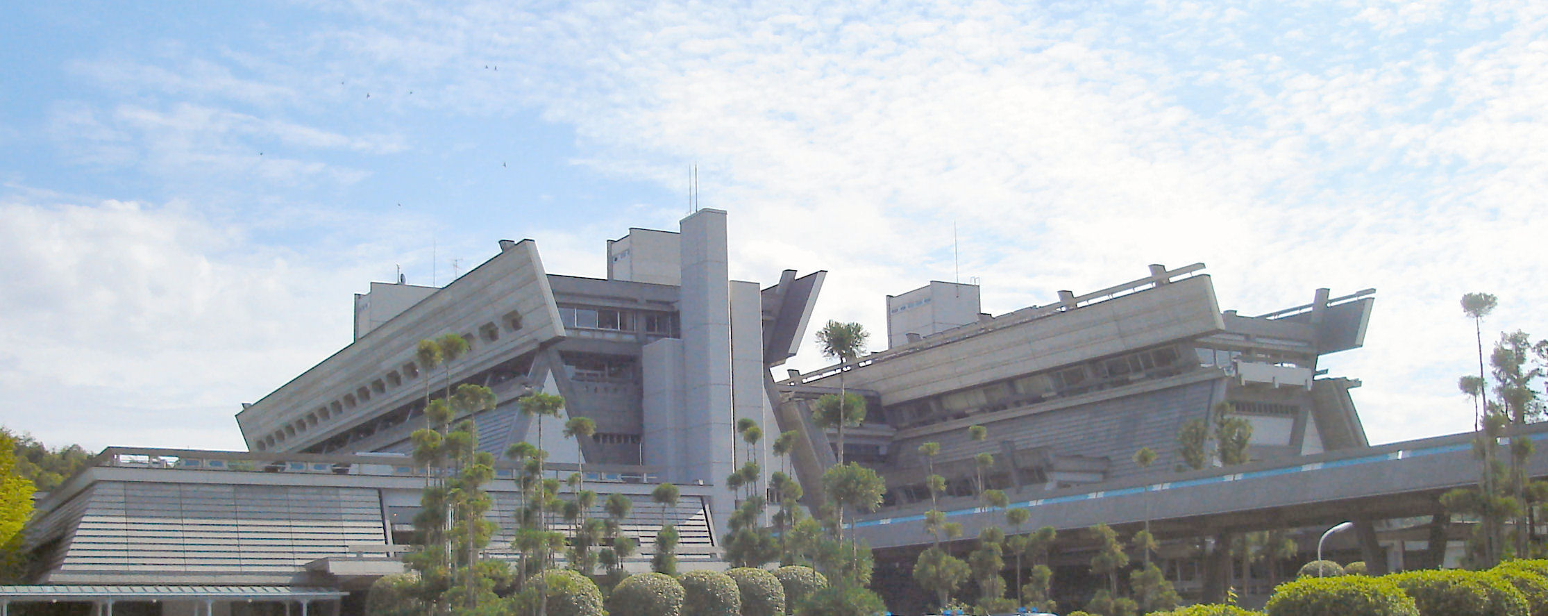 Kyoto International Confernce Hall